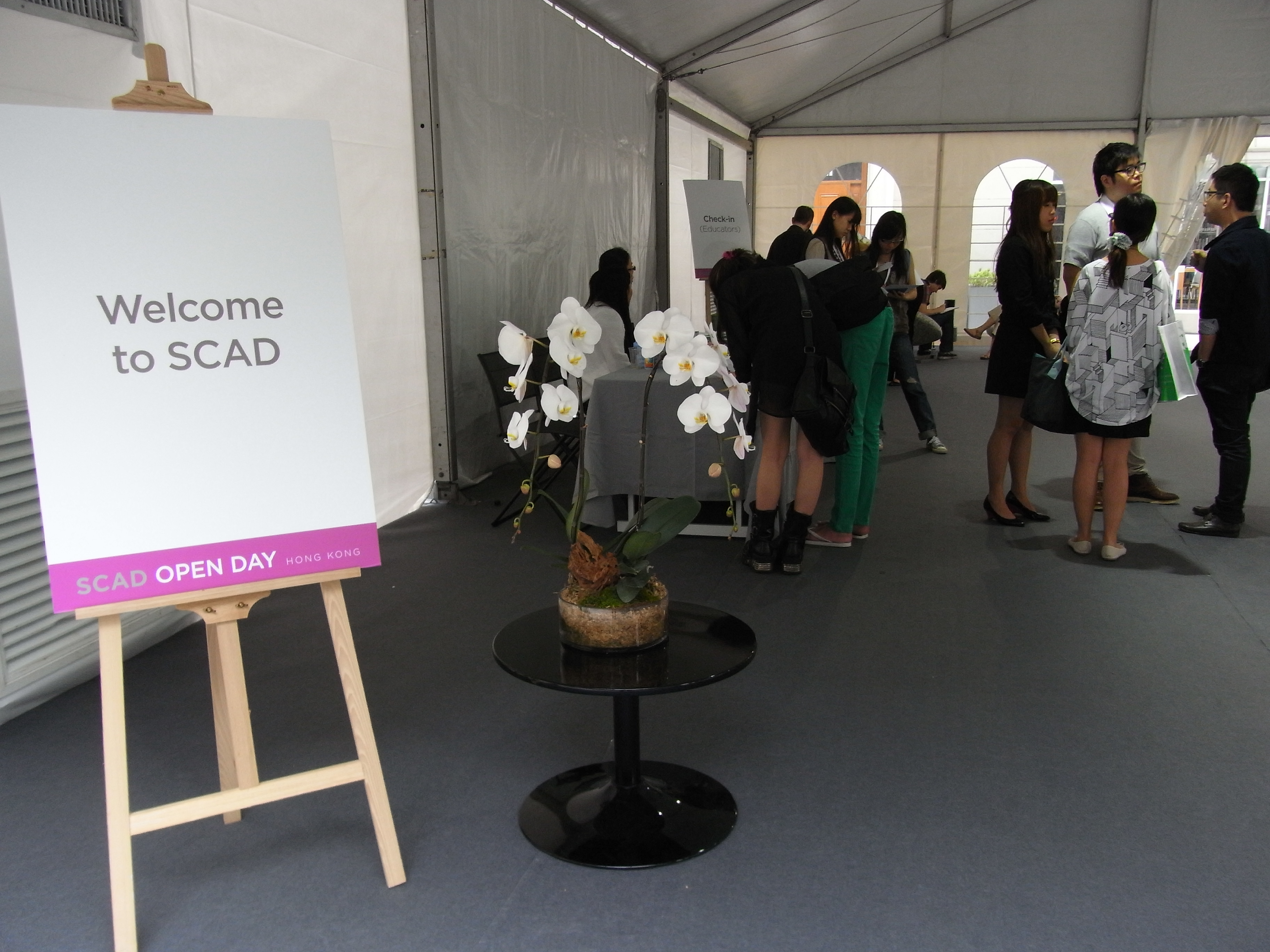 薩凡納藝術設計學院. SCAD Hong Kong, Shek Kip Mei campus, Hong Kong